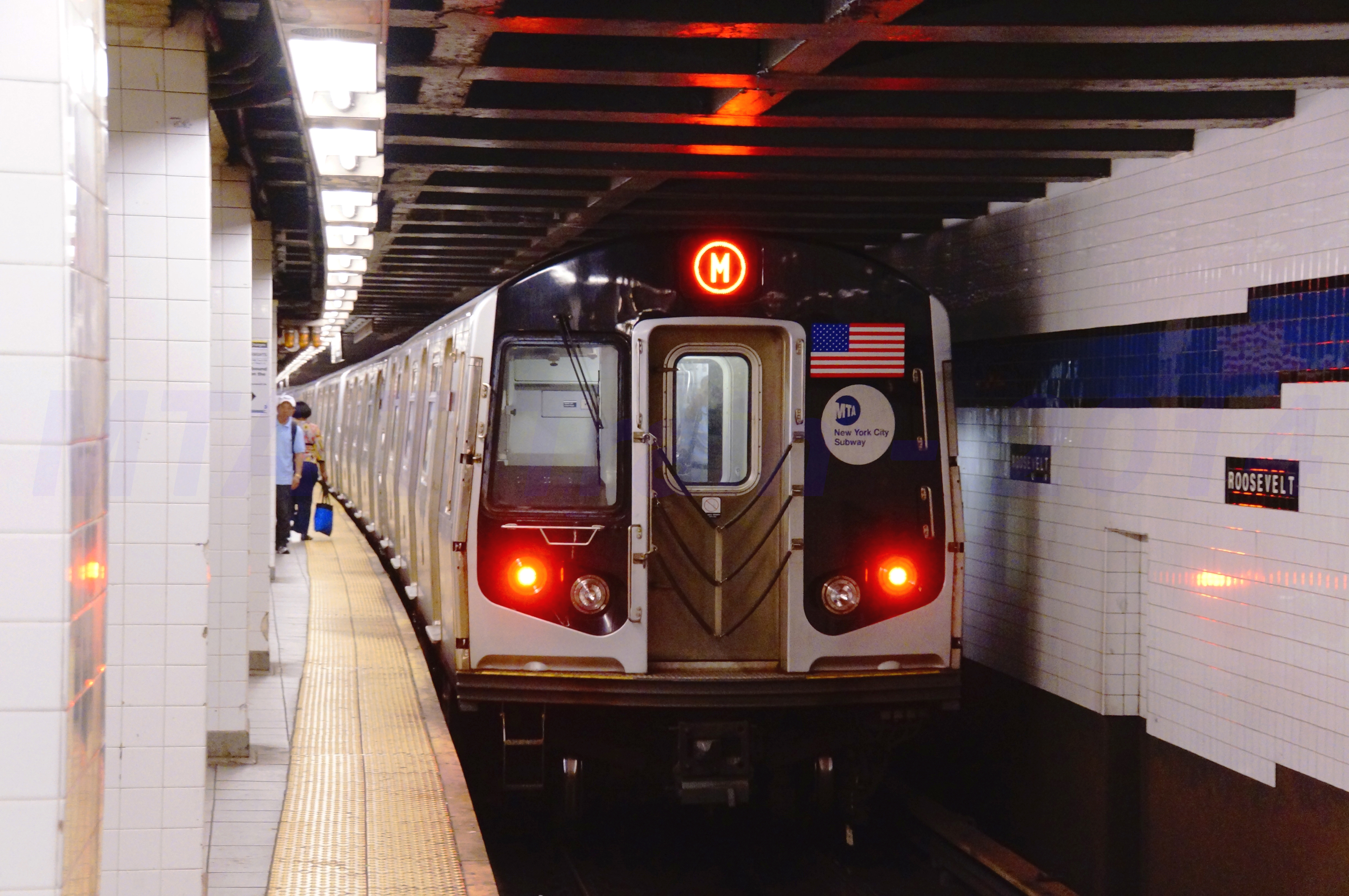 Metropolitan Avenue-bound MTA NYC Subway M train of Alstom Corporation R160 cars leaving Roosevelt Avenue.